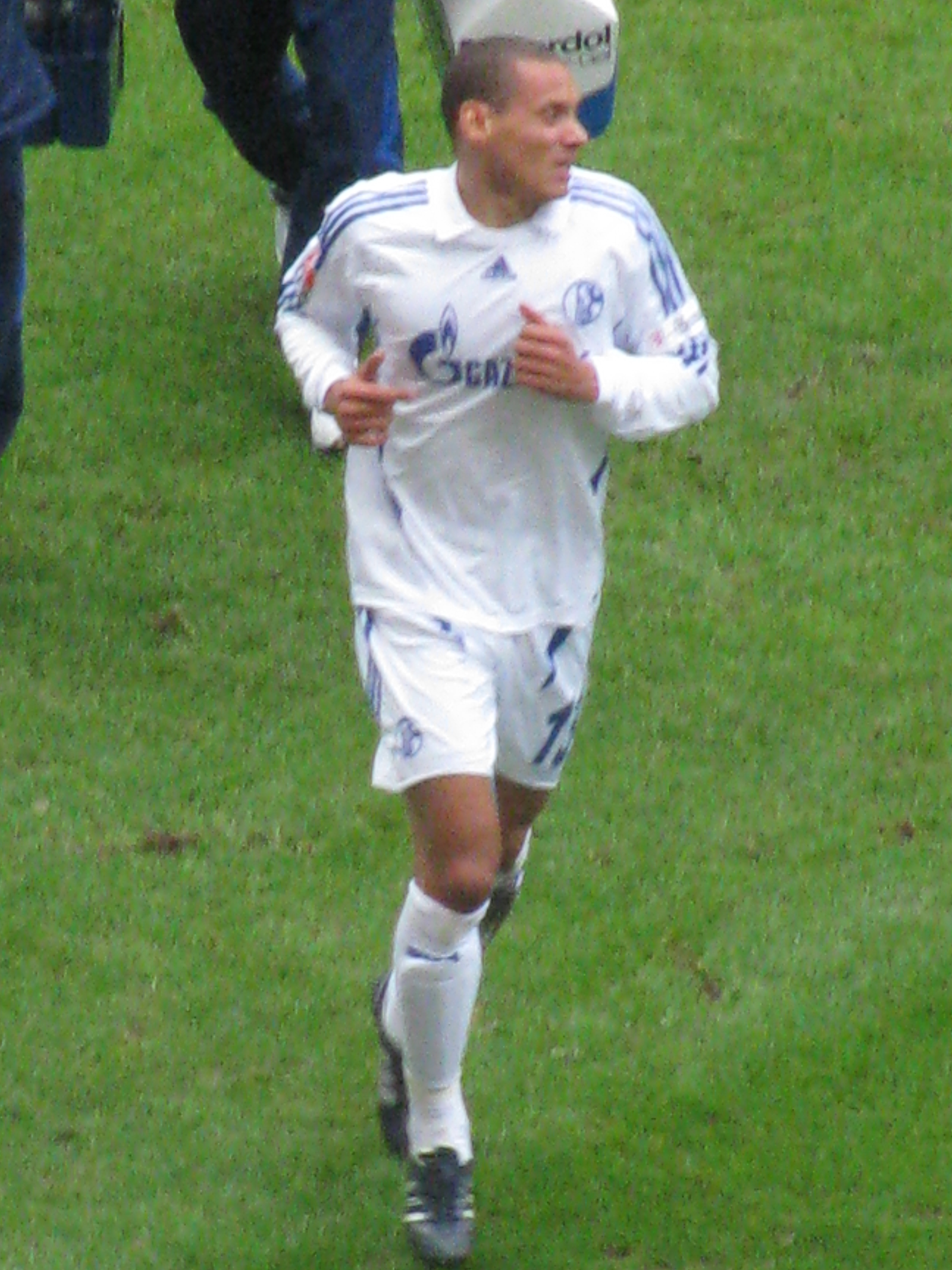 Professional football (soccer) player Jermaine Jones, Schalke 04, at the Match against Eintracht Frankfurt